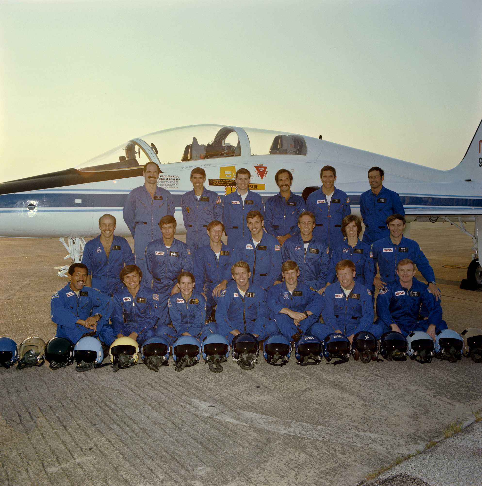 The ninth group of NASA astronauts selected in 1980. Back row, L-R: Guy S. Gardner, Robert C. Springer, Bryan D. O'Connor, Wubbo Ockels, Michael J. Smith, John M. Lounge. Middle row, L-R: James P. Bagian, John E. Blaha, Claude Nicollier, David C. Hilmers, William F. Fisher, Bonnie J. Dunbar, Jerry L. Ross. Front row, L-R: Charles F. Bolden Jr., Franklin R. Chang-Diaz, Mary L. Cleave, David C. Leestma, Sherwood C. Spring, Richard N. Richards, Roy D. Bridges.